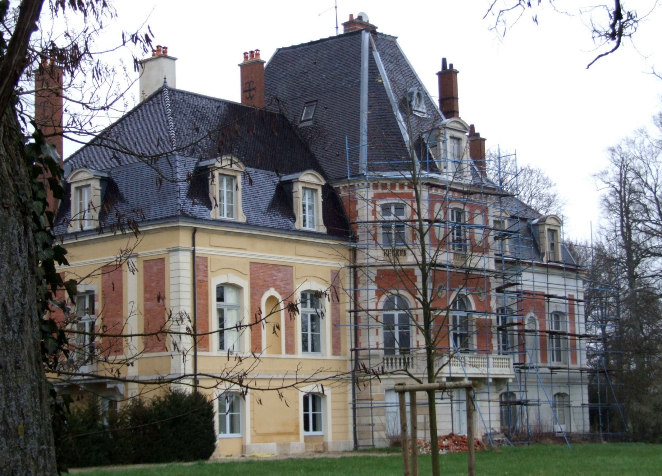 Aiserey, Burgundy, FRANCE